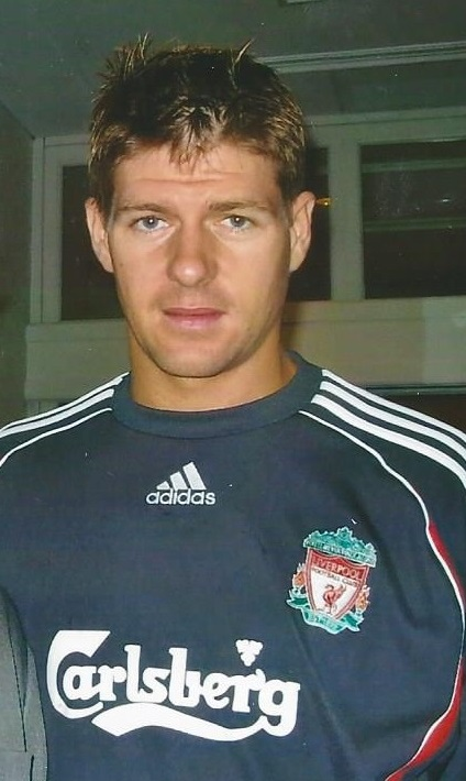 Steven Gerrard in 2006